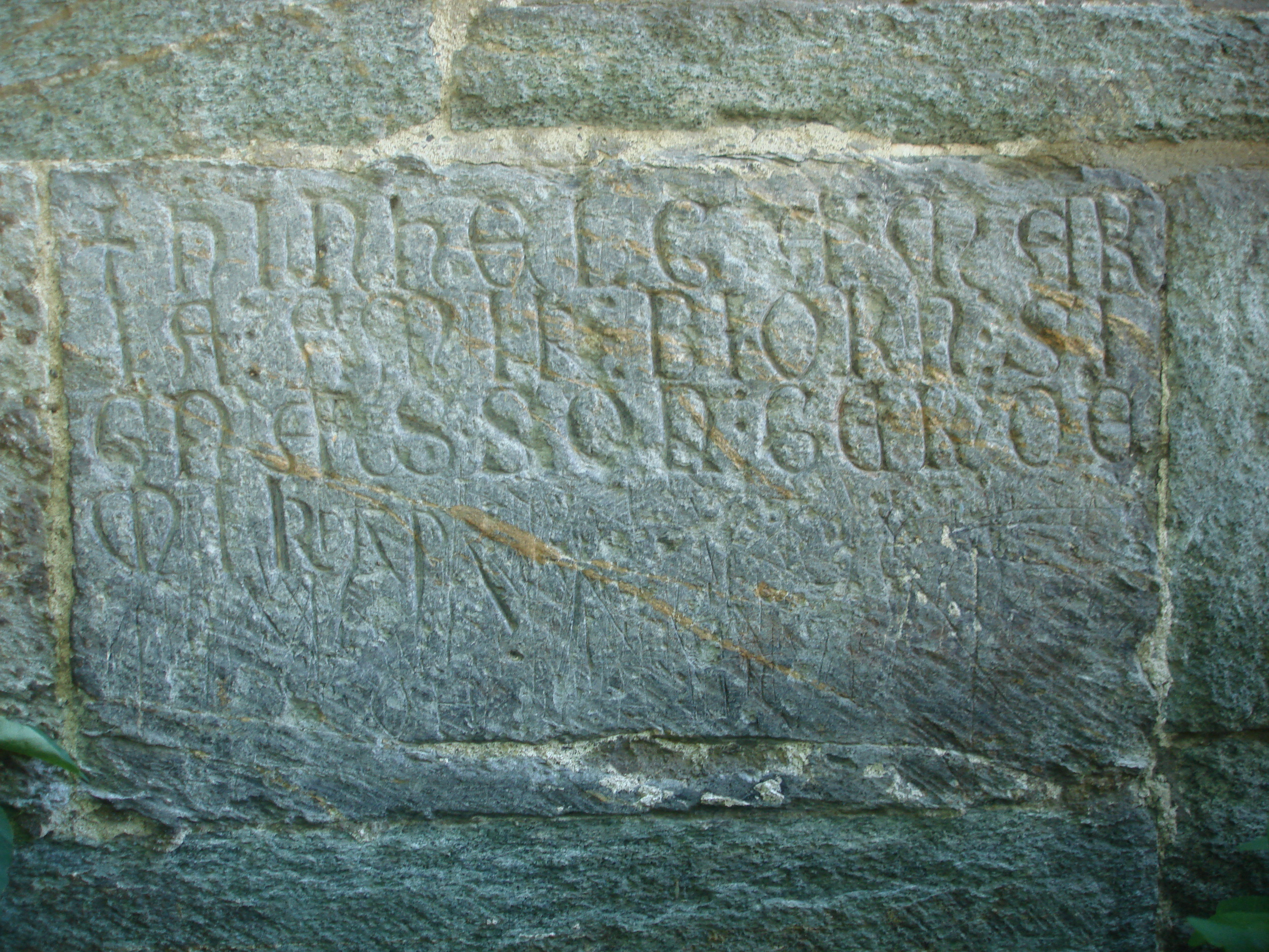 Foundation stone in the east wall of the chancel, Church of Our Lady, Trondheim, c 1200. Inscription dedicating the church to St. Mary and naming Bjørn Sigvardsson as its "maker".